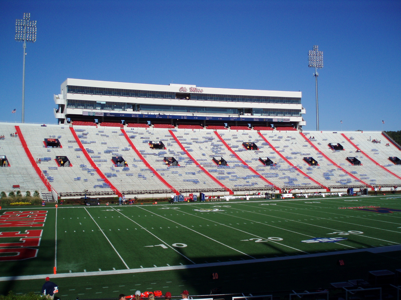 University of Mississippi football stadium, Vaught-Hemingway Stadium.